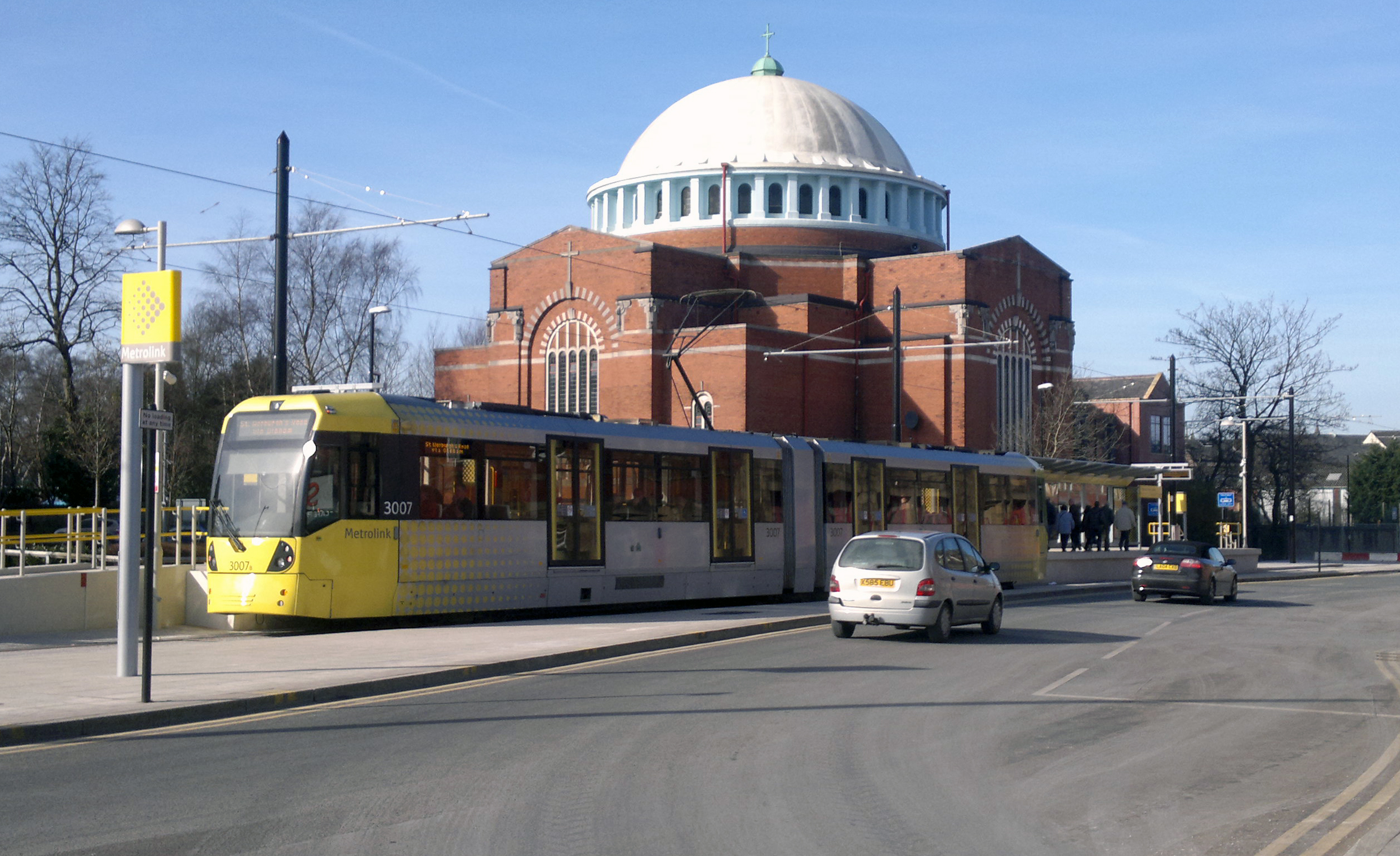 The Metrolink stop at Rochdale Railway Station, in Rochdale, Greater Manchester, England. This photograph was taken on the day Metrolink first started operating passenger services to Rochdale. Behind the stop is Rochdale's landmark St John the Baptist Catholic Church.